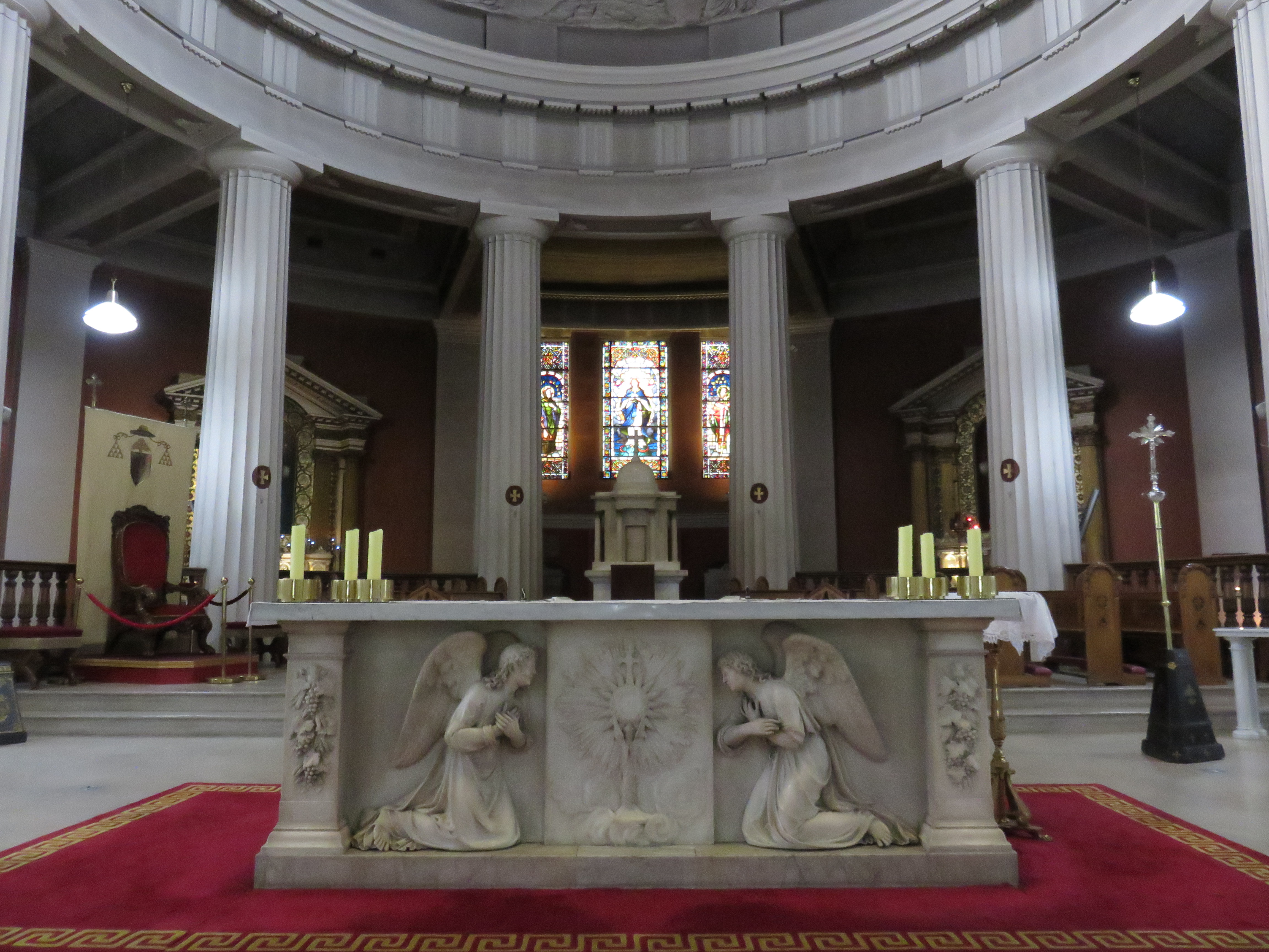 Altar of St. Mary's Pro-Cathedral in 2018